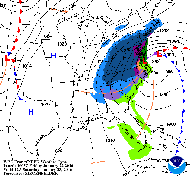 National Weather Service 24. hour forecast for blizzard in the eastern United States, for January 22-23, 2016